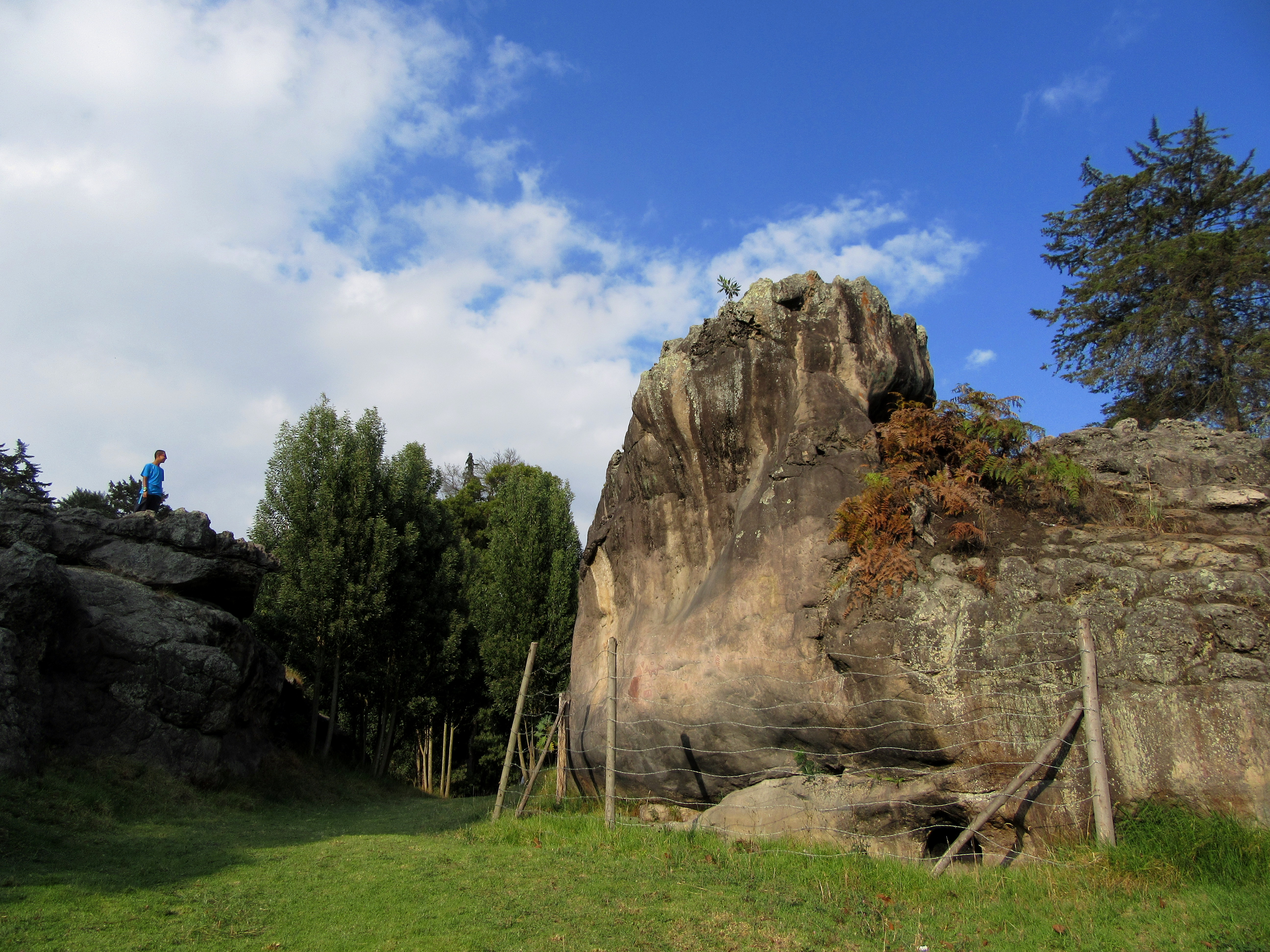 Piedras del Tunjo en Facatativá.